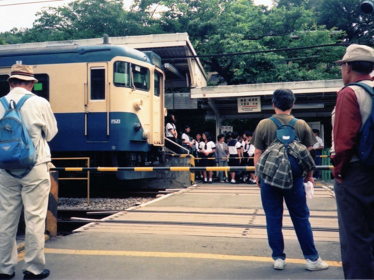 East Japan Railway Company, Kita-kamakura Sta. about 1994 Photo by Cassiopeia_sweet.